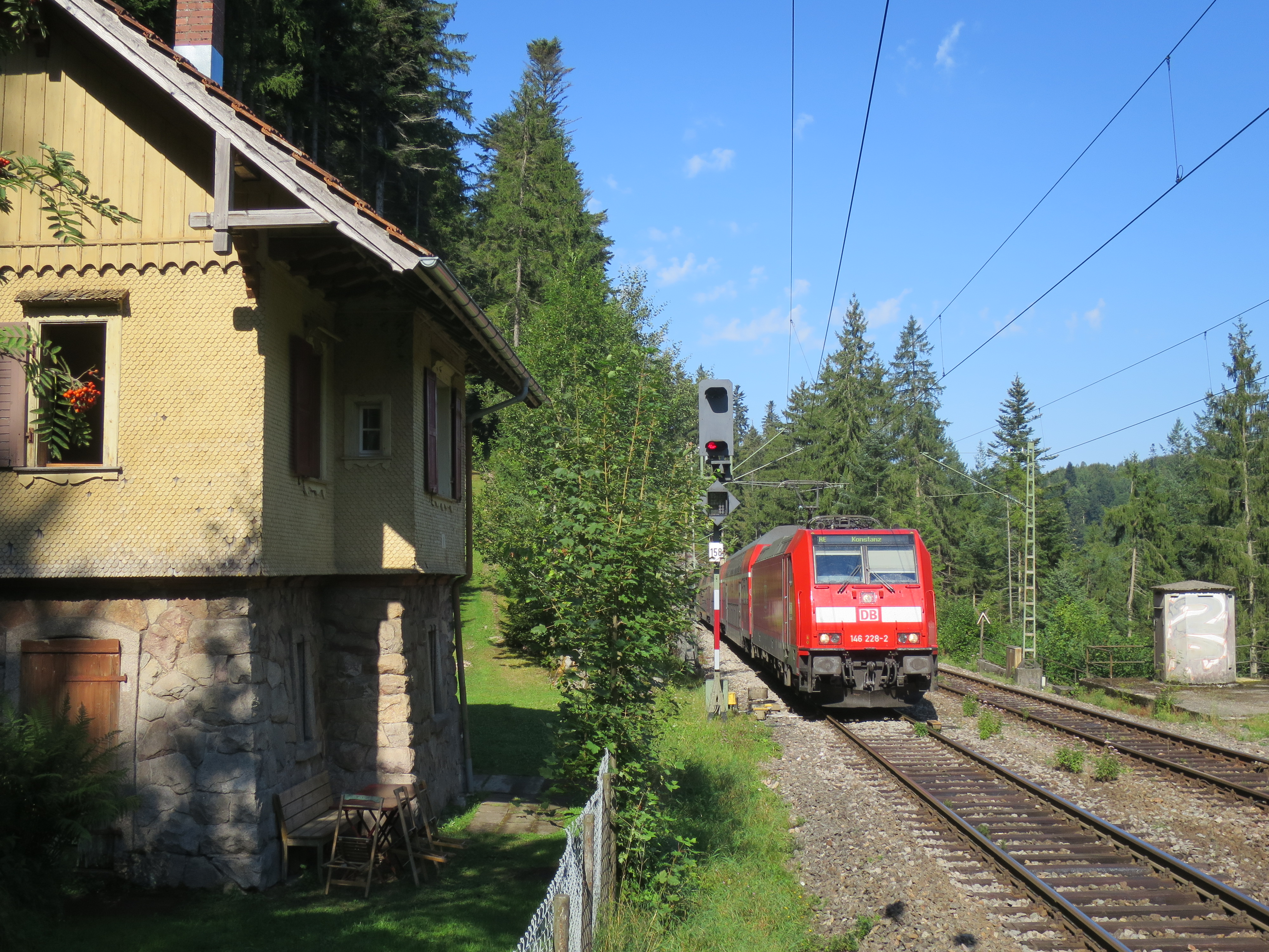 Signalman's quarter at km 60,1 of Badische Schwarzwaldbahn (historic Monument)